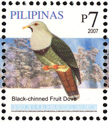 Ptilinopus leclancheri